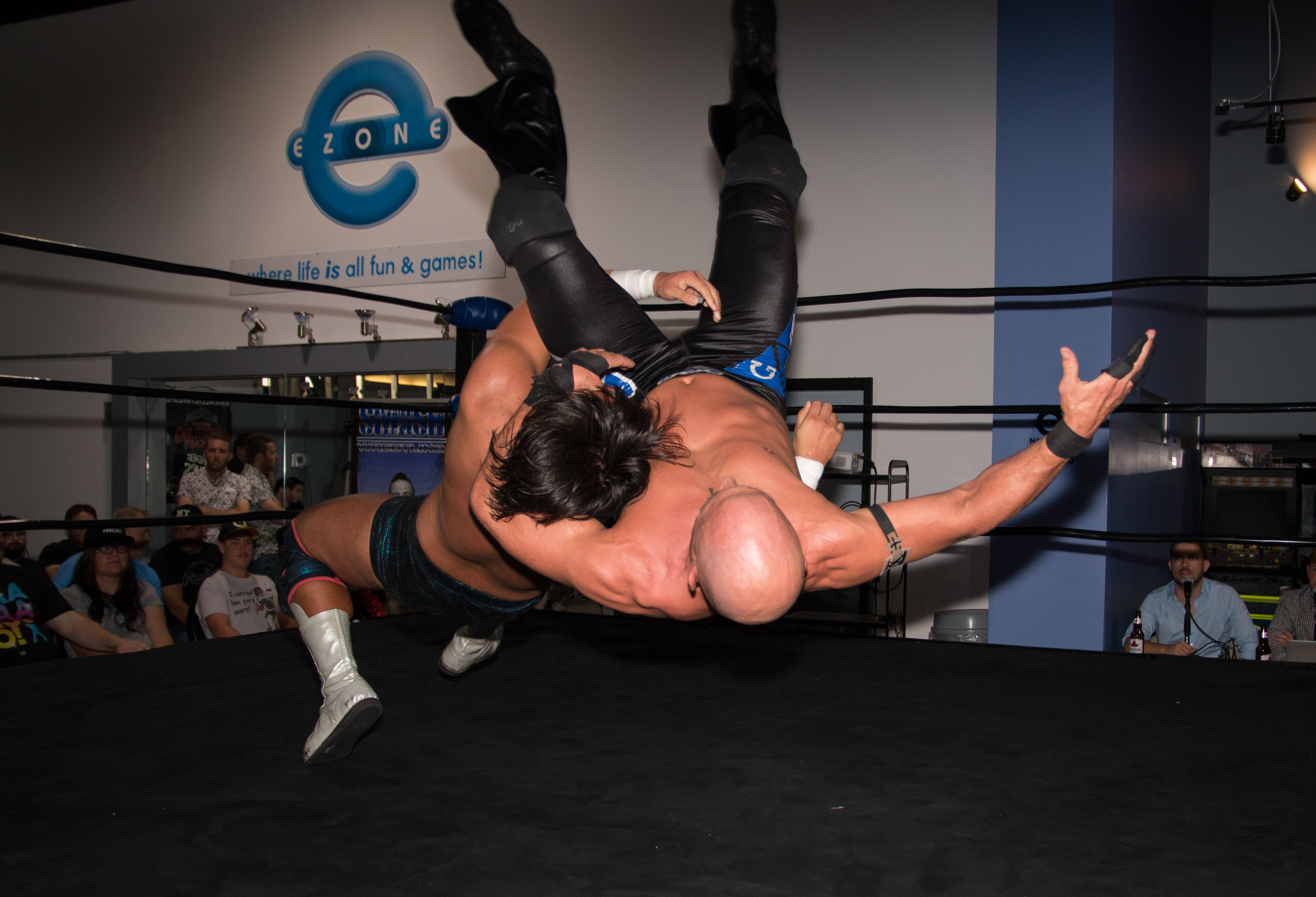 Takaaki Watanabe (left) executing a german suplex on Christopher Daniels at a Smash Wrestling show in Mississauga, ON